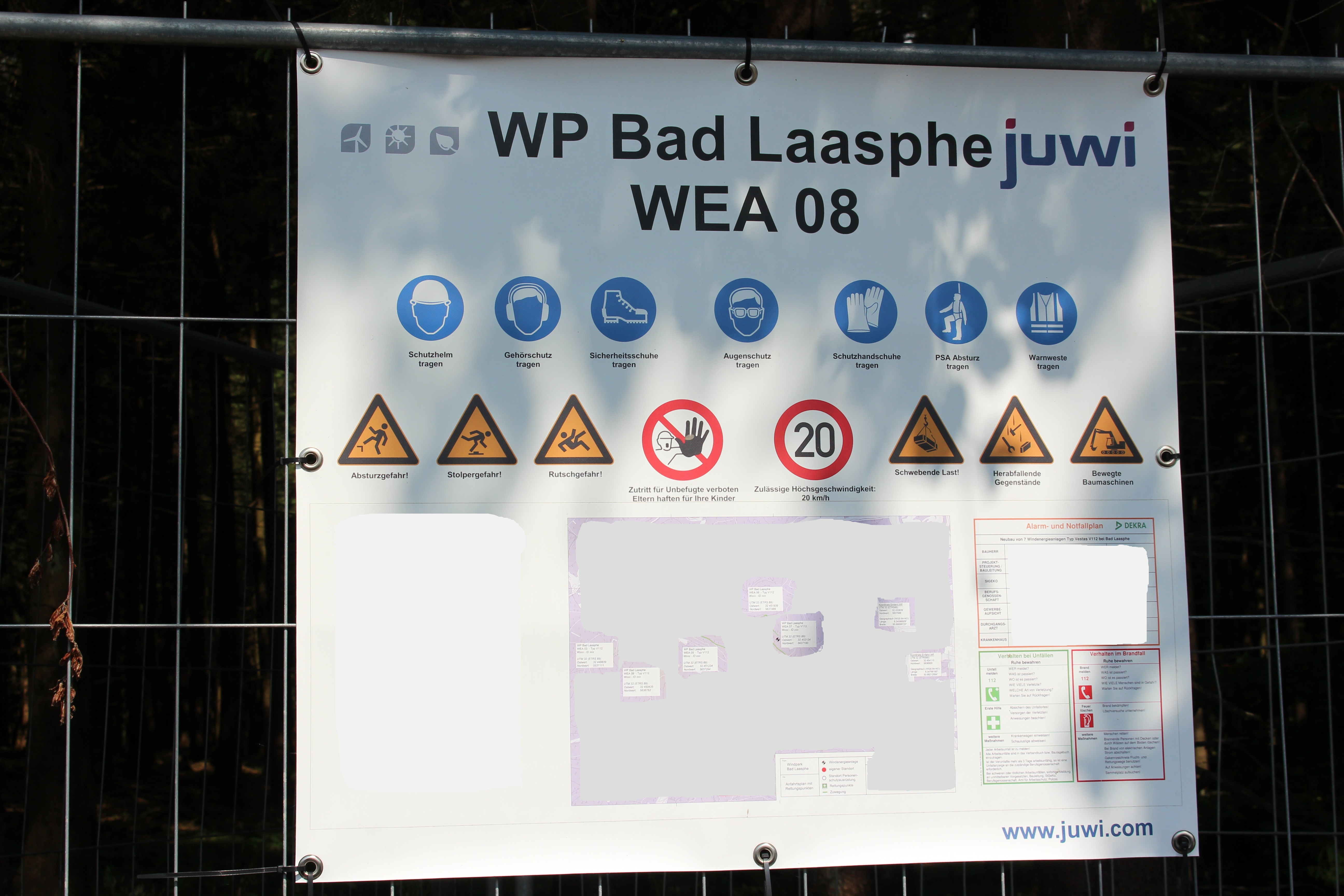 Construction sign of the wind farm Sohl ("Windpar Sohl"), NRW, germany. Sensitive information were removed.